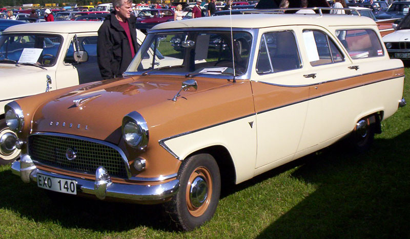 1959 Ford Consul Farnham